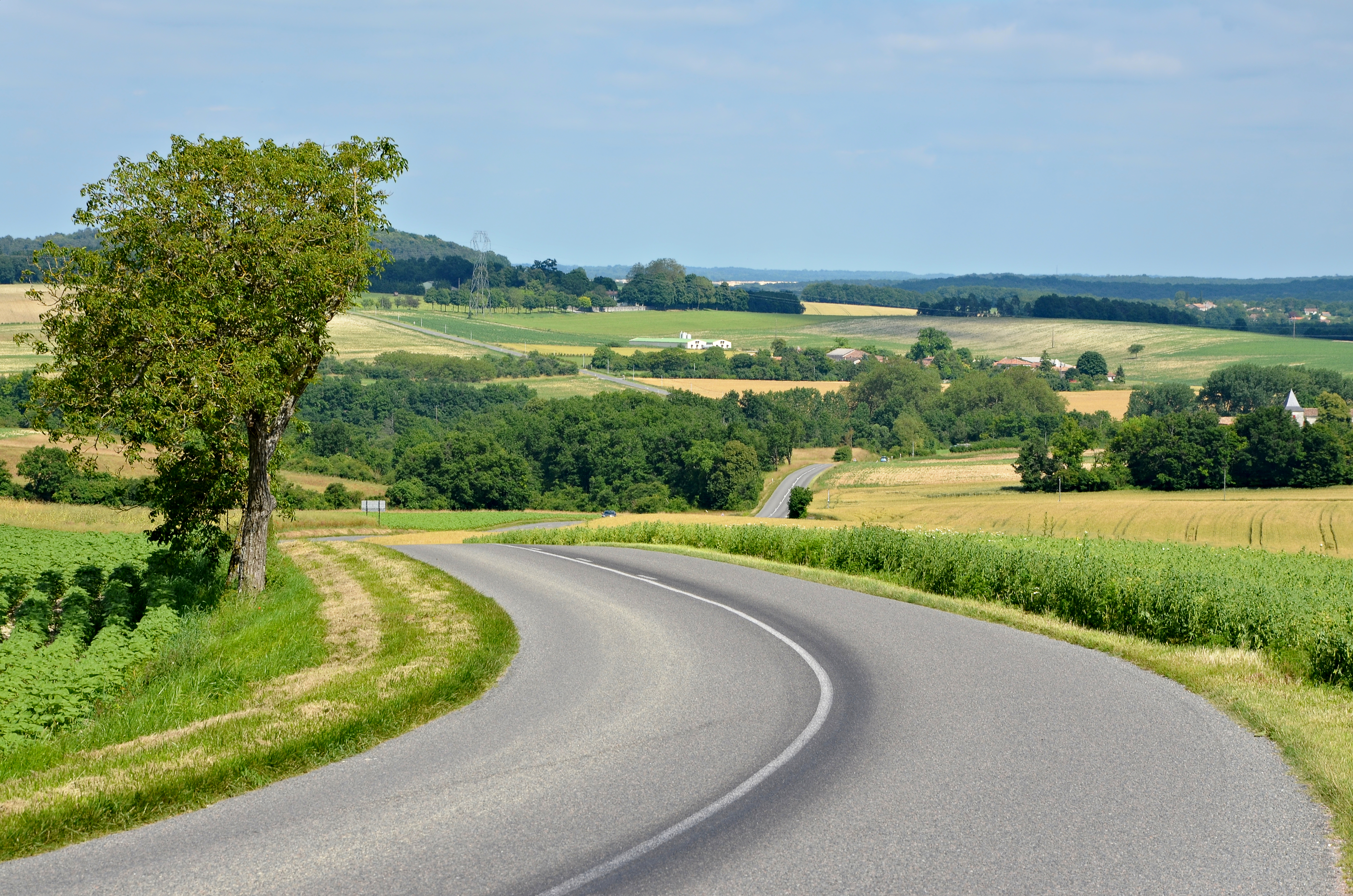 Road D 5 and view towards East and Dordogne. Villebois-Lavalette, Charente, France.